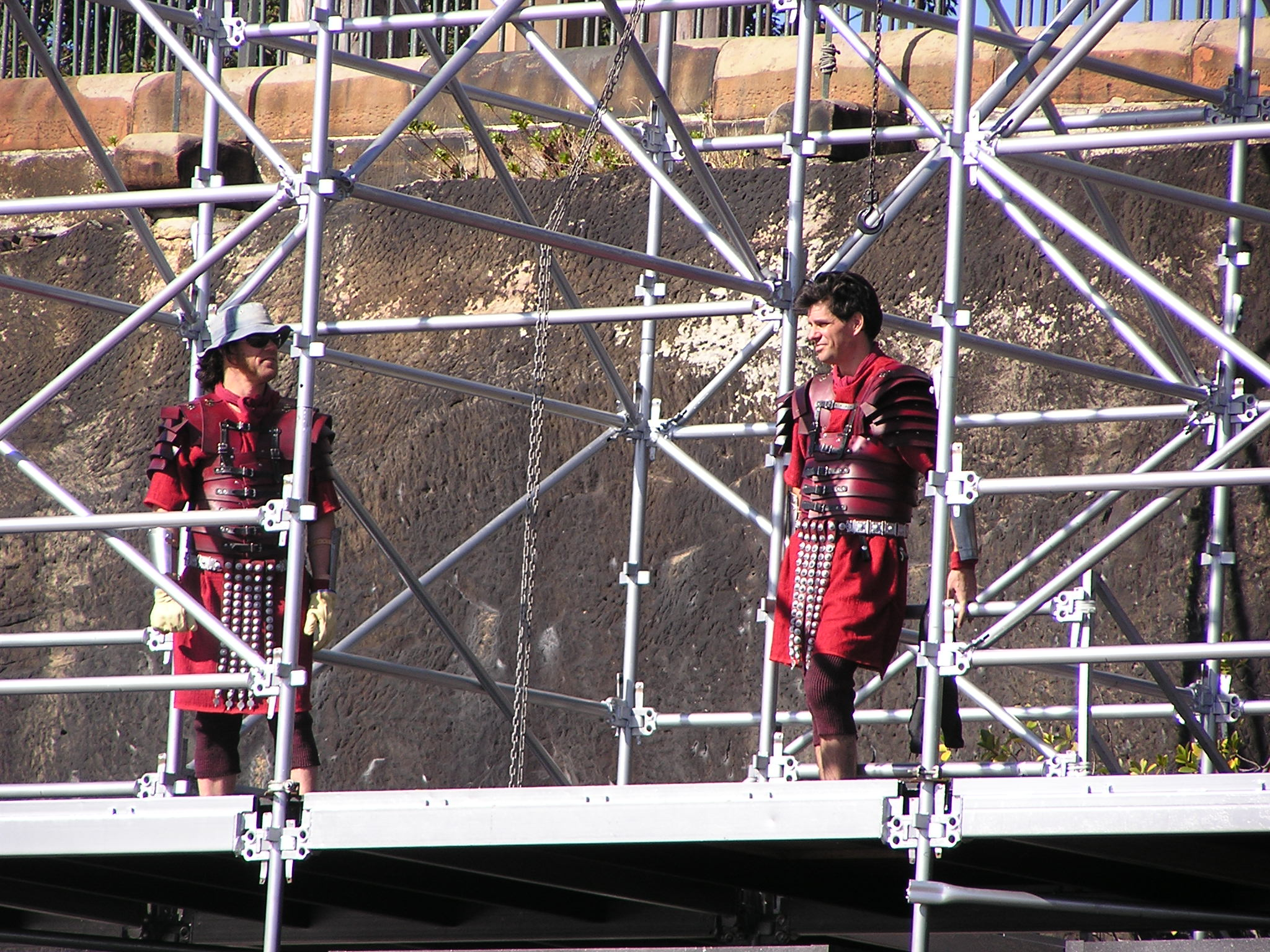 rehearsal on 12 July 2008 for World Youth Day Station of the Cross near the Sydney Opera House